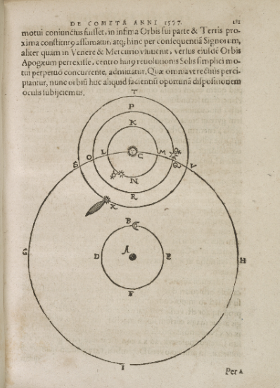 Tycho Brahe's picture of the 1577 comet